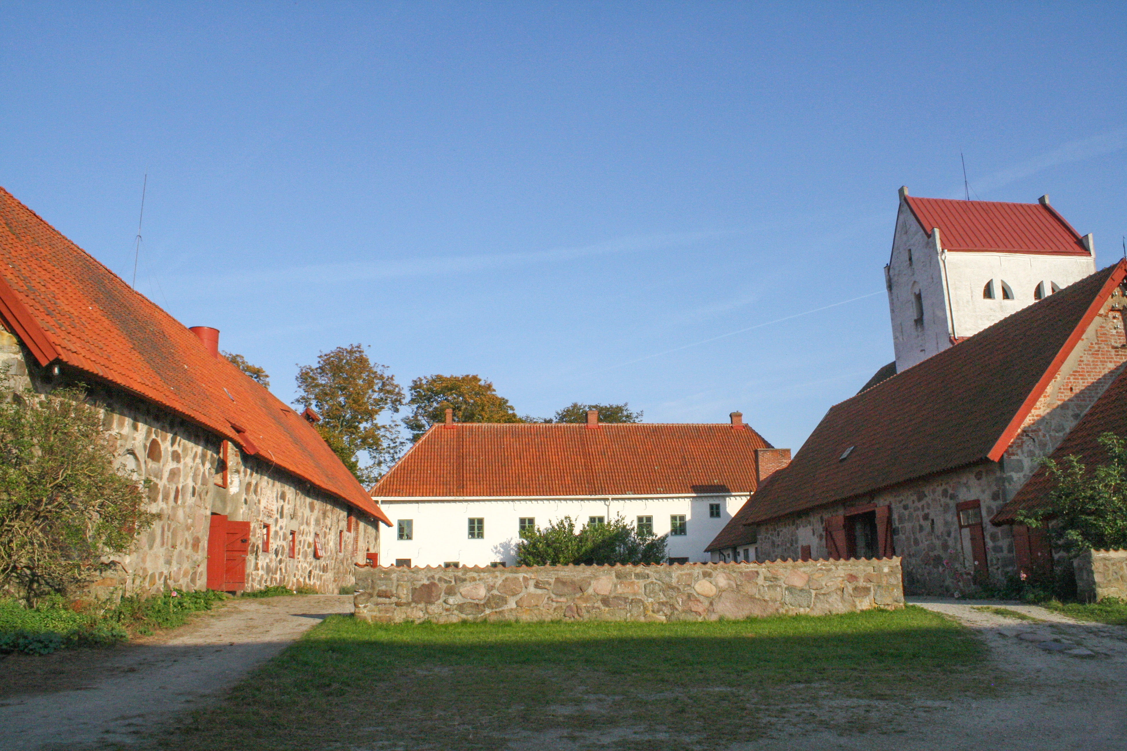 The Royal Desmesne at Dalby, inner yard, Skåne